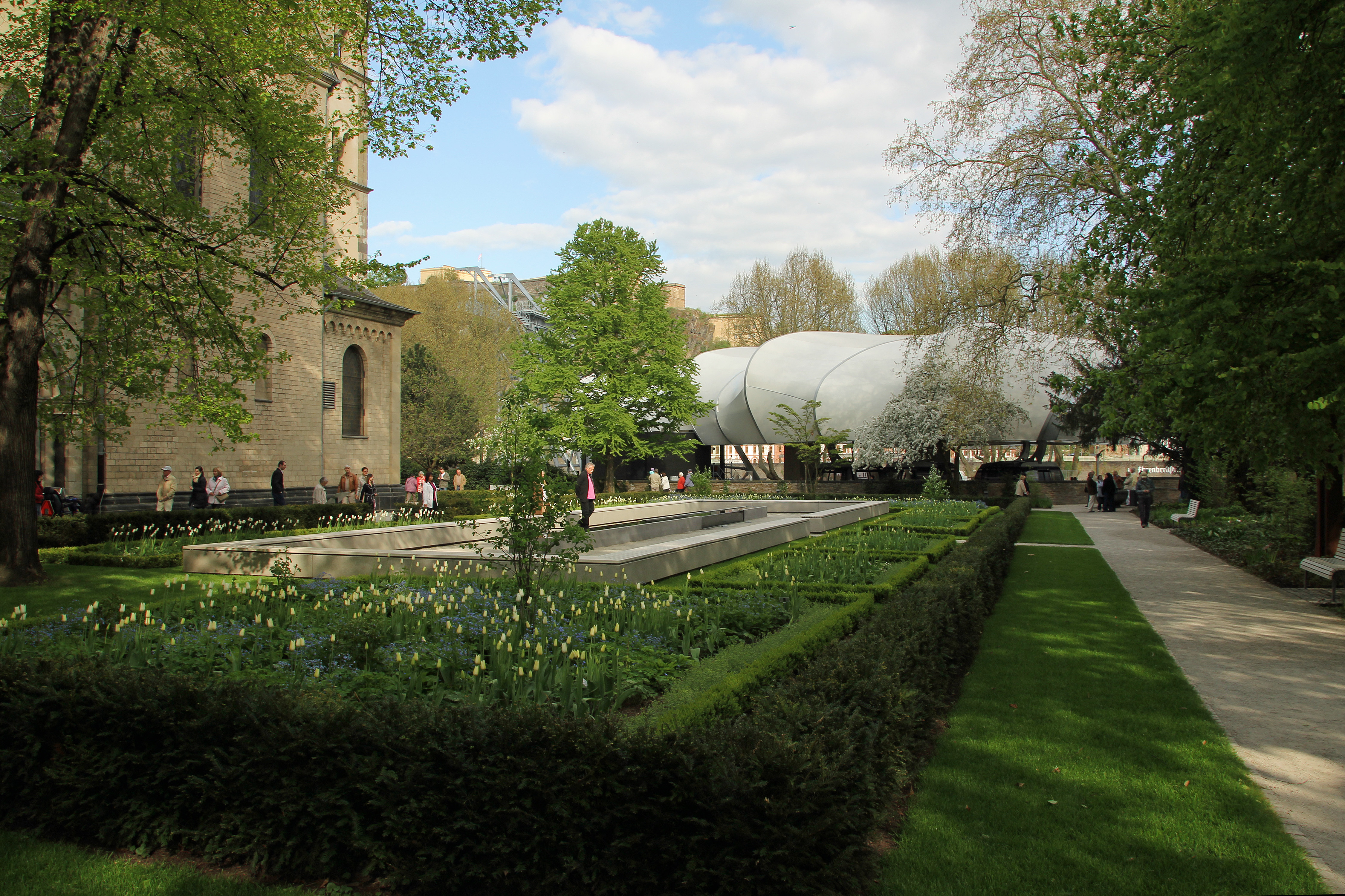 Federal Horticultural Show 2011 in Koblenz - Blumenhof at Deutsches Eck